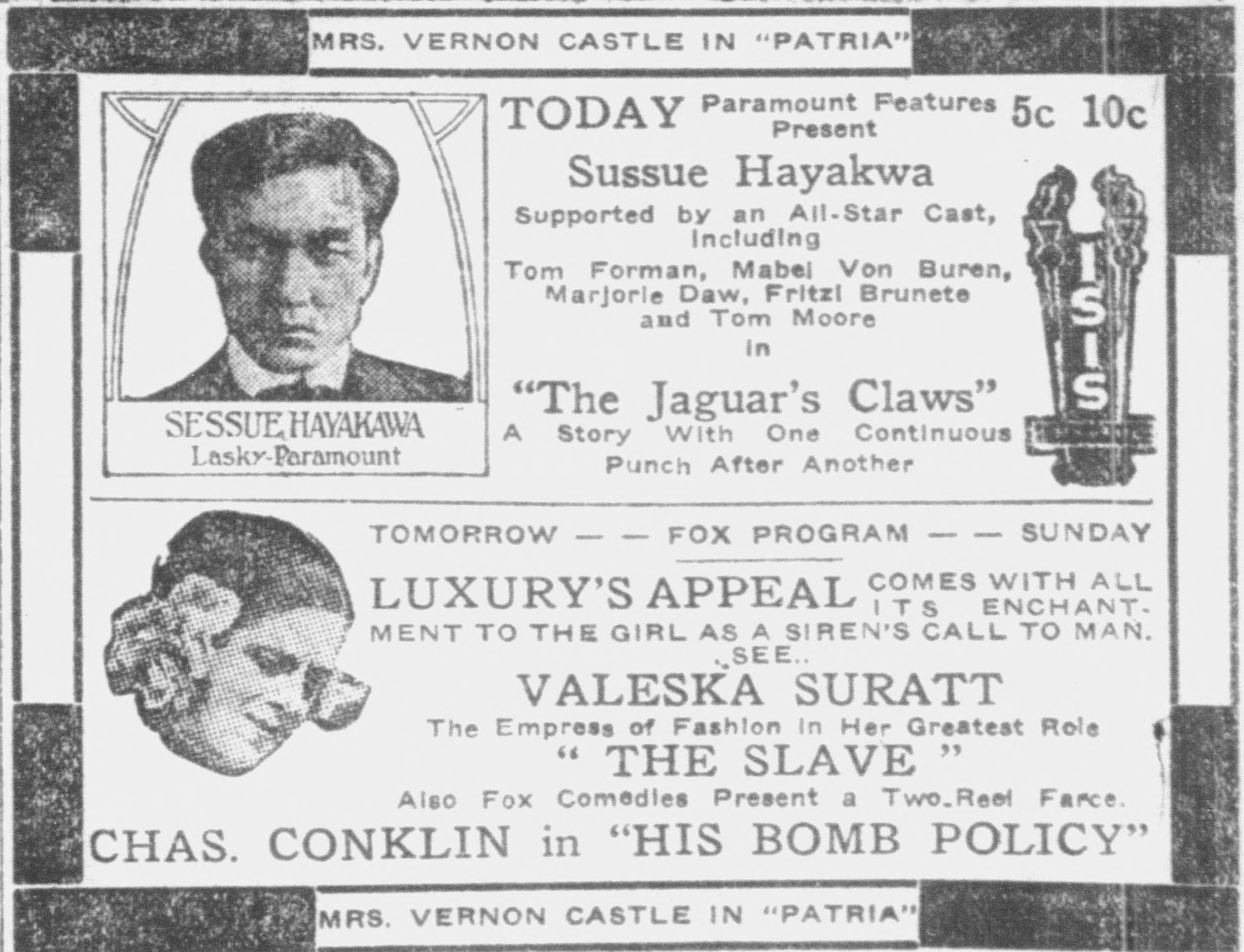 Newspaper advertisement for The Jaguar's Claws and The Slave